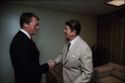 President Ronald Reagan and Jim Bunning (4-18) Trip to Kentucky, Photo Op. With State Senator Jim Bunning